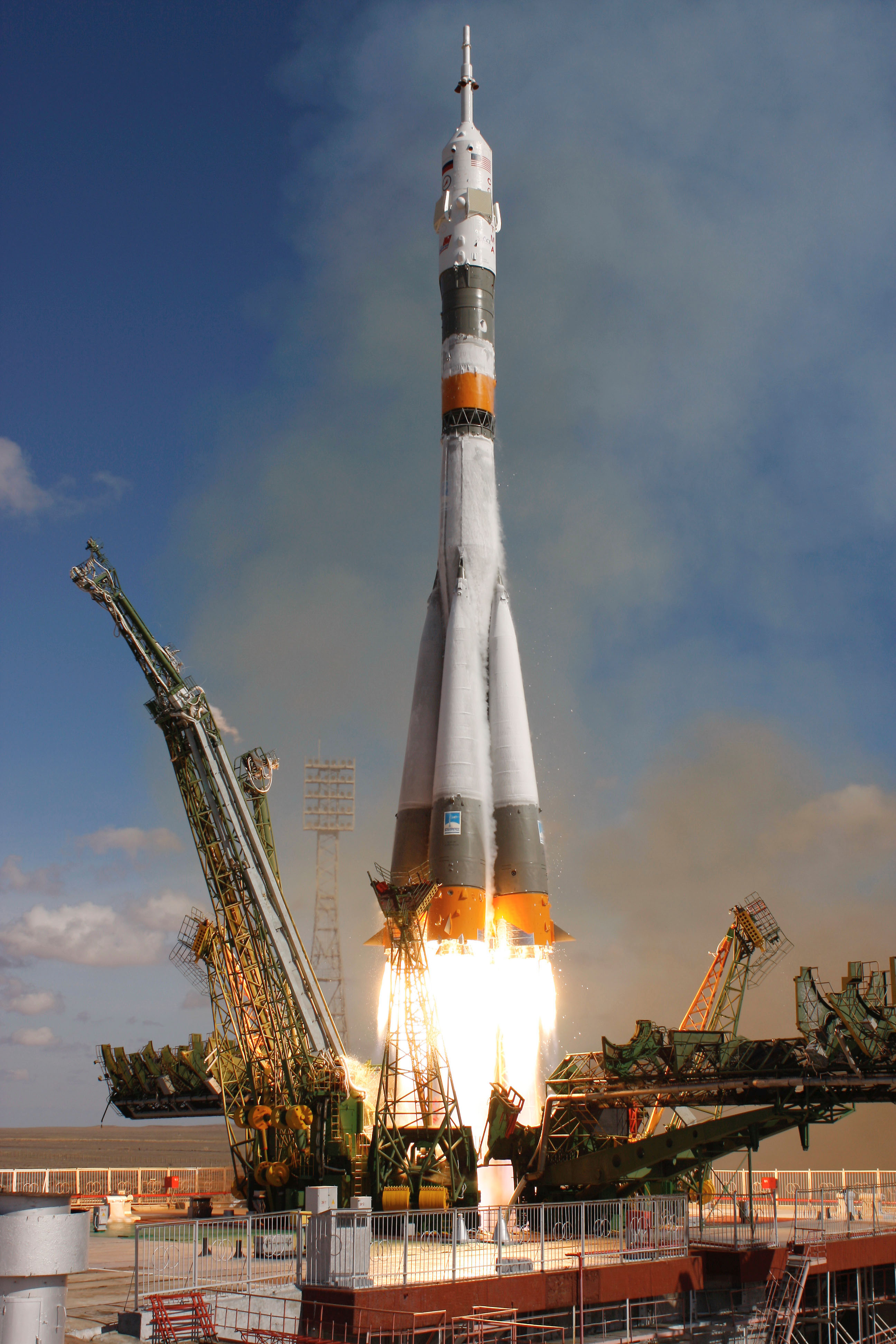 The Soyuz TMA-13 spacecraft, carrying Expedition 18 Commander Michael Fincke, Flight Engineer Yury V. Lonchakov and American spaceflight participant Richard Garriott, launched Sunday, October 12, 2008, from the Baikonur Cosmodrome in Kazakhstan. The three crew members are scheduled to dock with the International Space Station on Oct. 14. Fincke and Lonchakov will spend six months on the station, while Garriott will return to Earth October 24, 2008, with two of the Expedition 17 crew currently aboard the International Space Station.